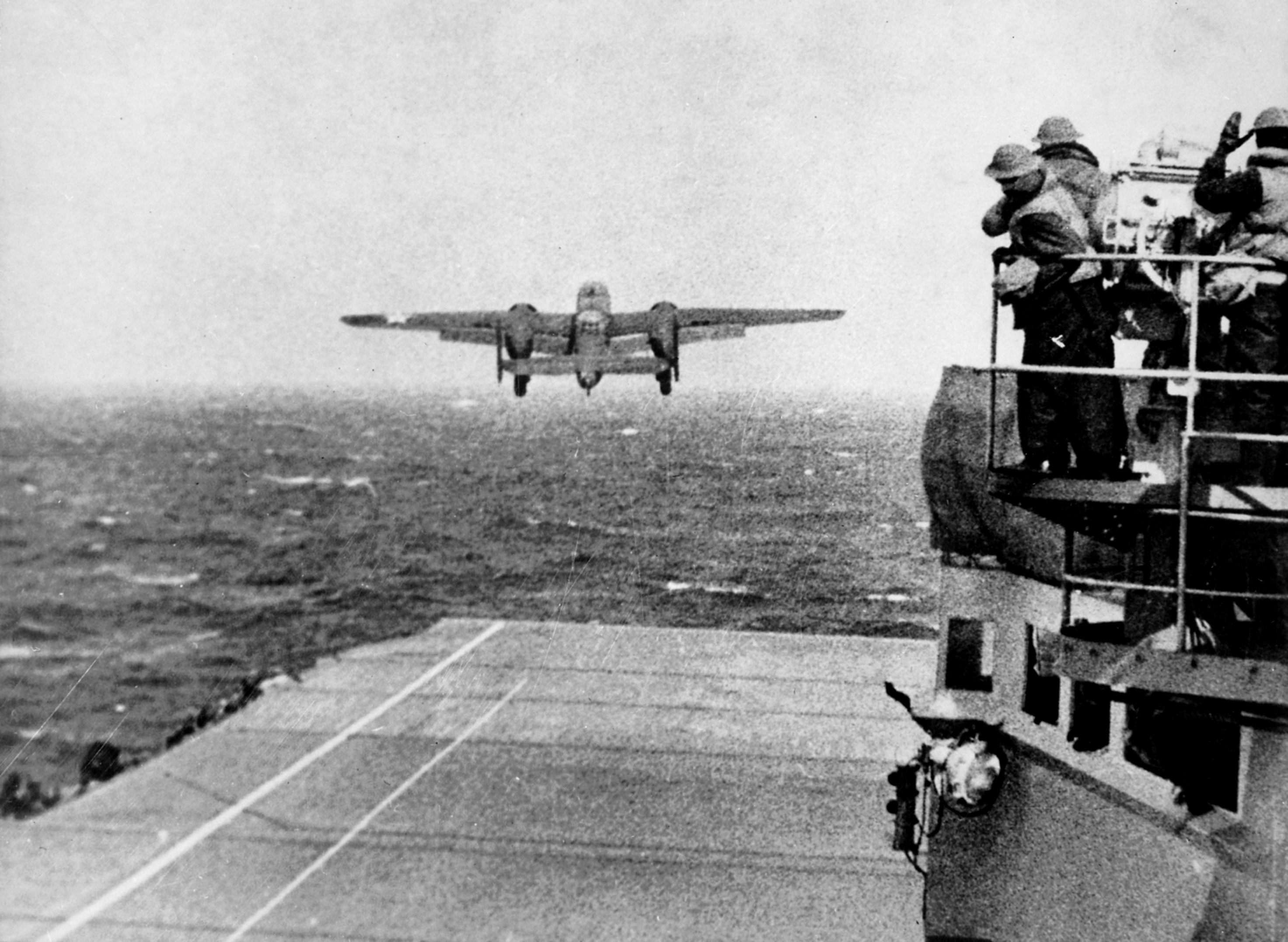 A U.S. Army Air Forces North American B-25B Mitchell bomber takes off from the aircraft carrier USS Hornet (CV-8) during the "Doolittle Raid".Original description: "Take off from the deck of the USS HORNET of an Army B-25 on its way to take part in first U.S. air raid on Japan. Doolittle Raid, April 1942."